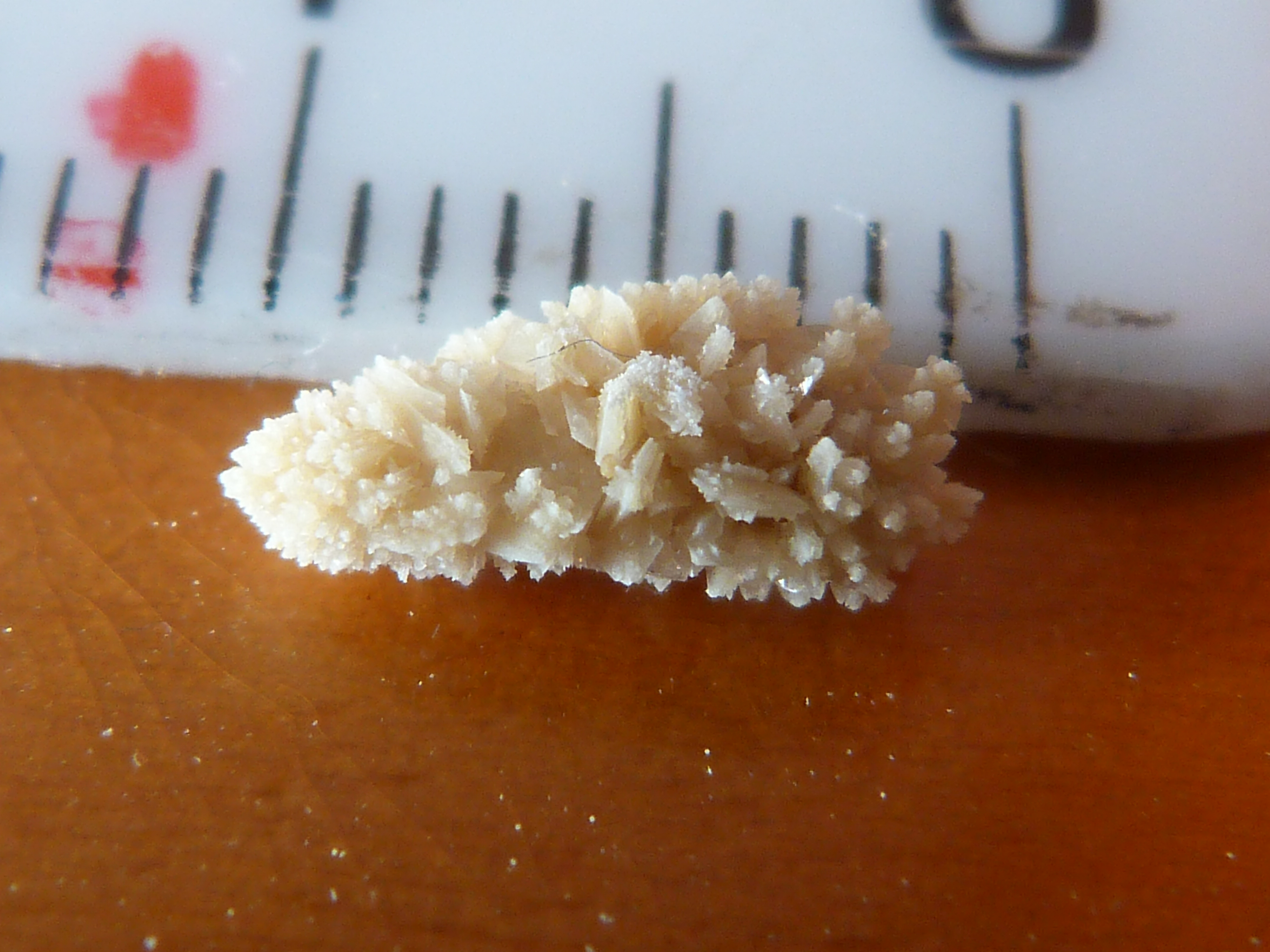 A kidney stone